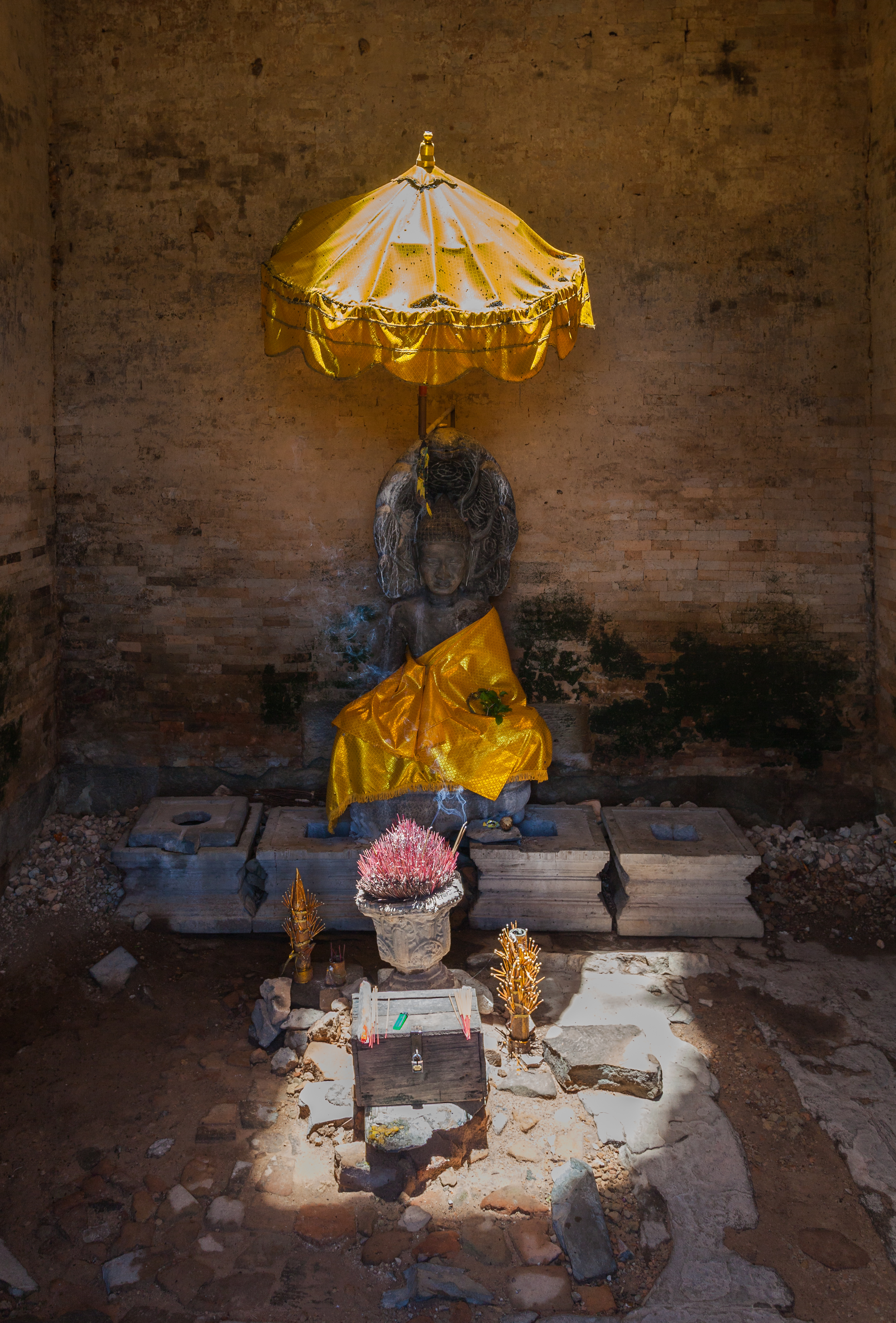 Mebon Oriental, Angkor, Cambodia